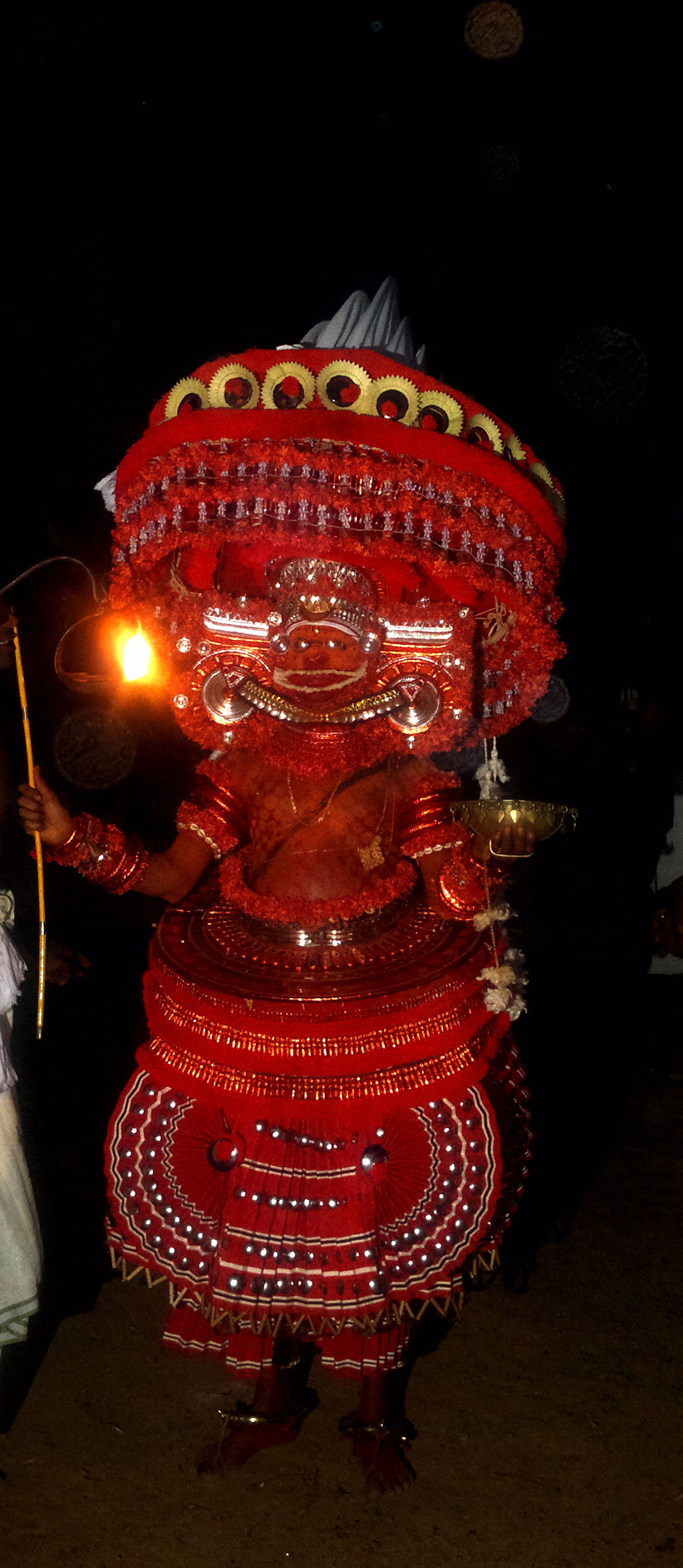 adimooliyatan theyyam